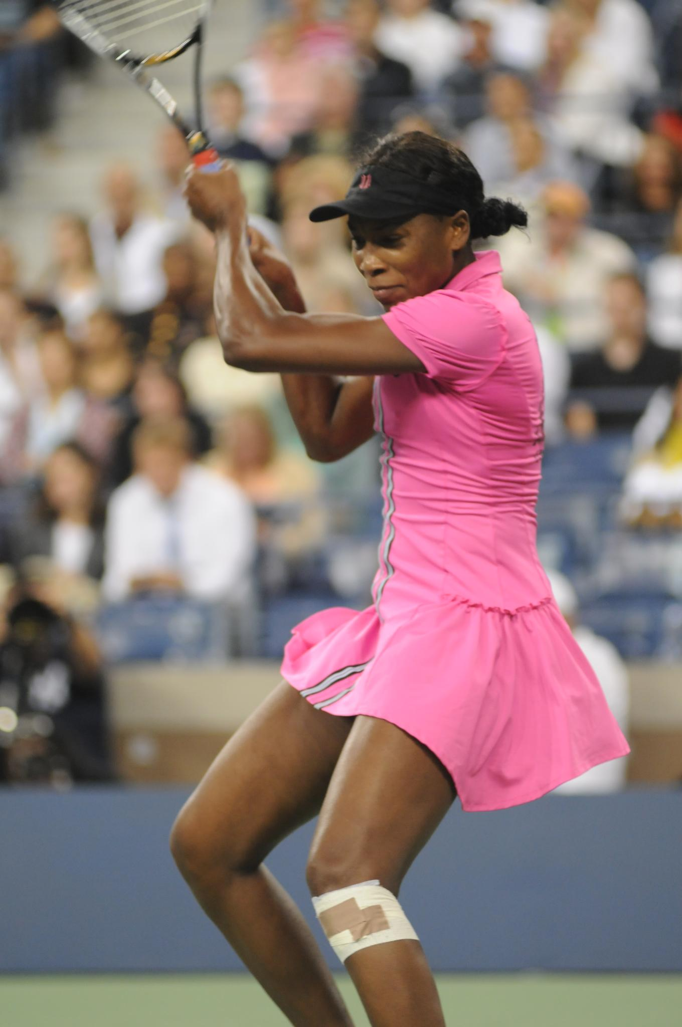 Venus Williams at the 2009 US Open